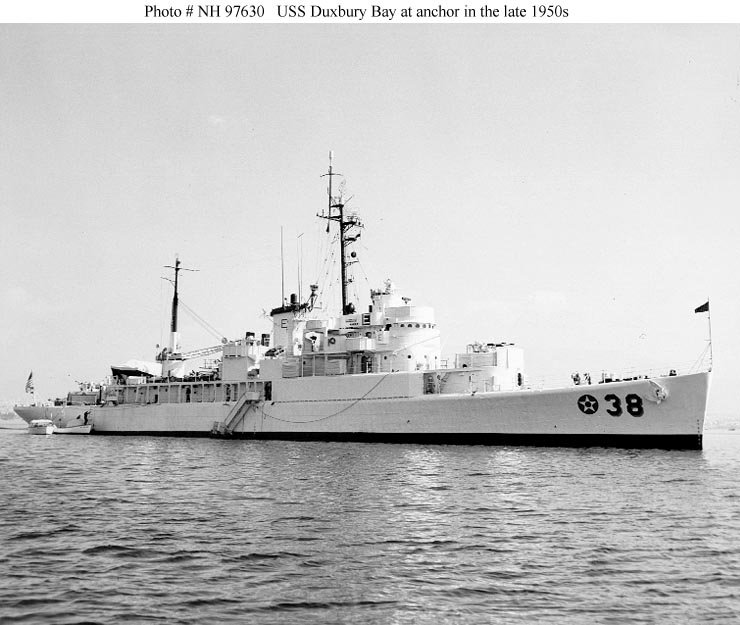 United States Navy seaplane tender USS Duxbury Bay (AVP-38) serving as flagship of the United States Middle East Force